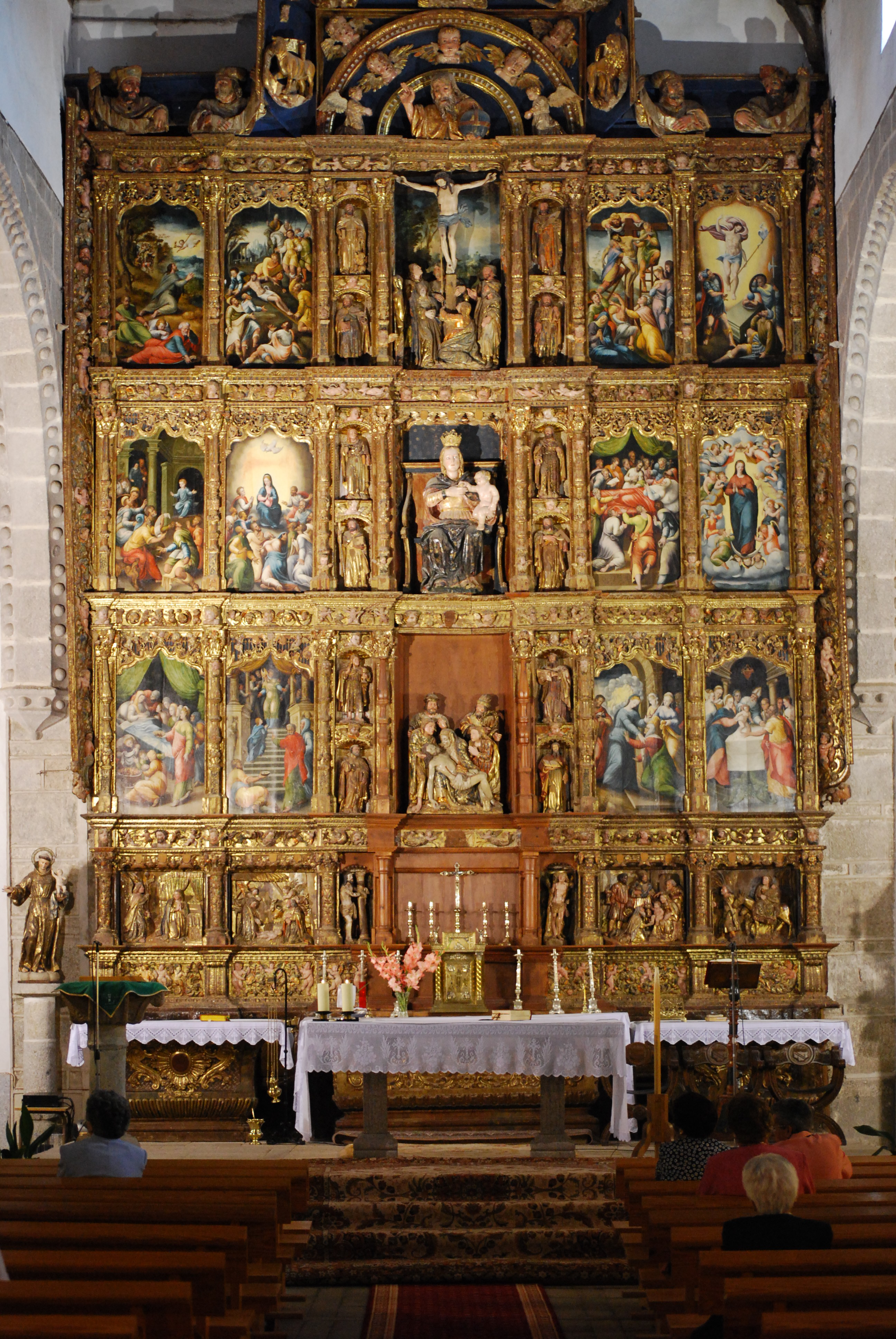 Retable from the church of Santa María del Castillo in Flores de Ávila